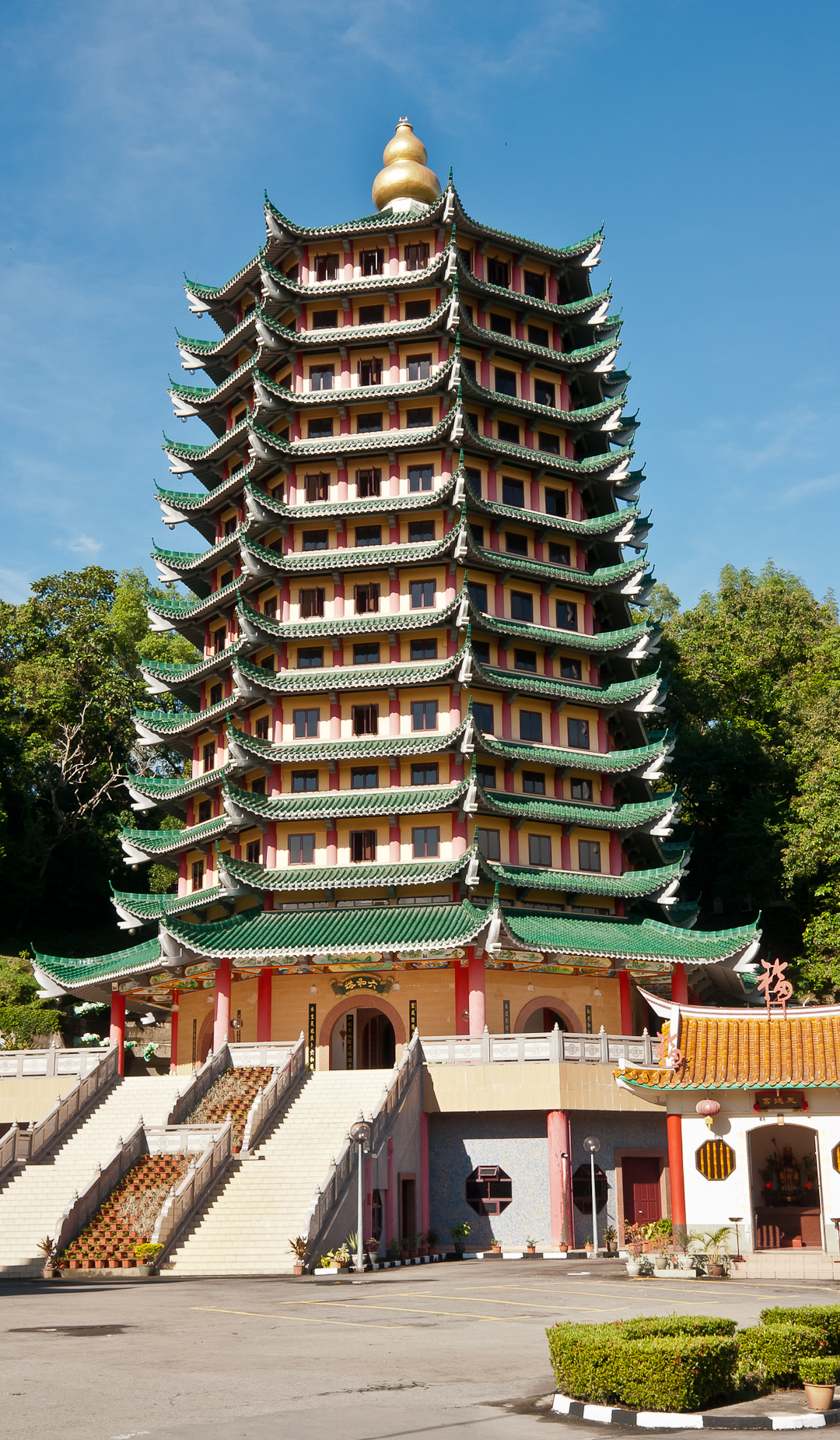 Kota Kinabalu (Sabah): CHE SUI KHOR Pagoda of the Moral Uplifting Society (A society of the Teik Kau Sect)